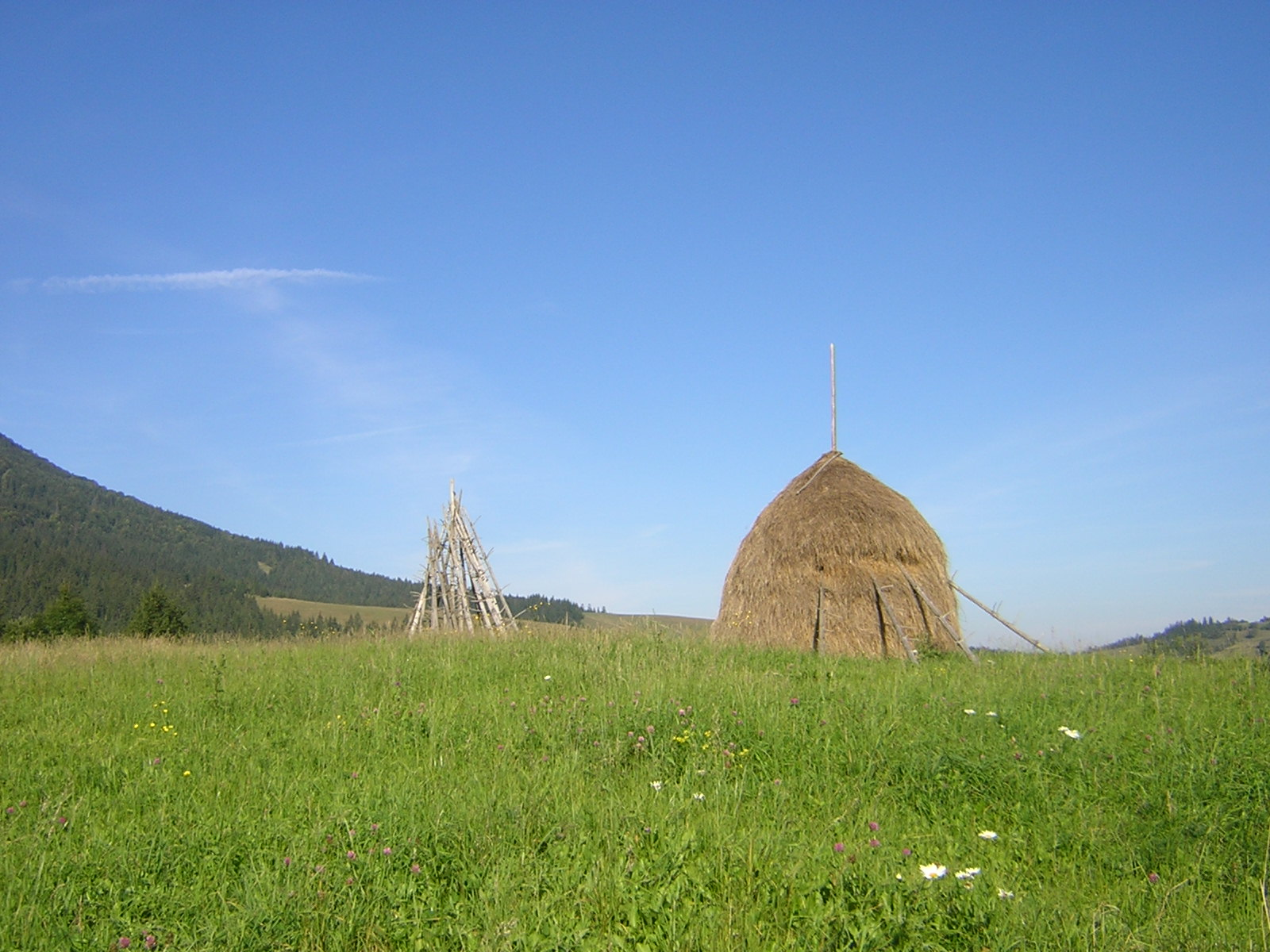 Meadows near Podobovets, Zakarpattia Oblast, Ukraine.